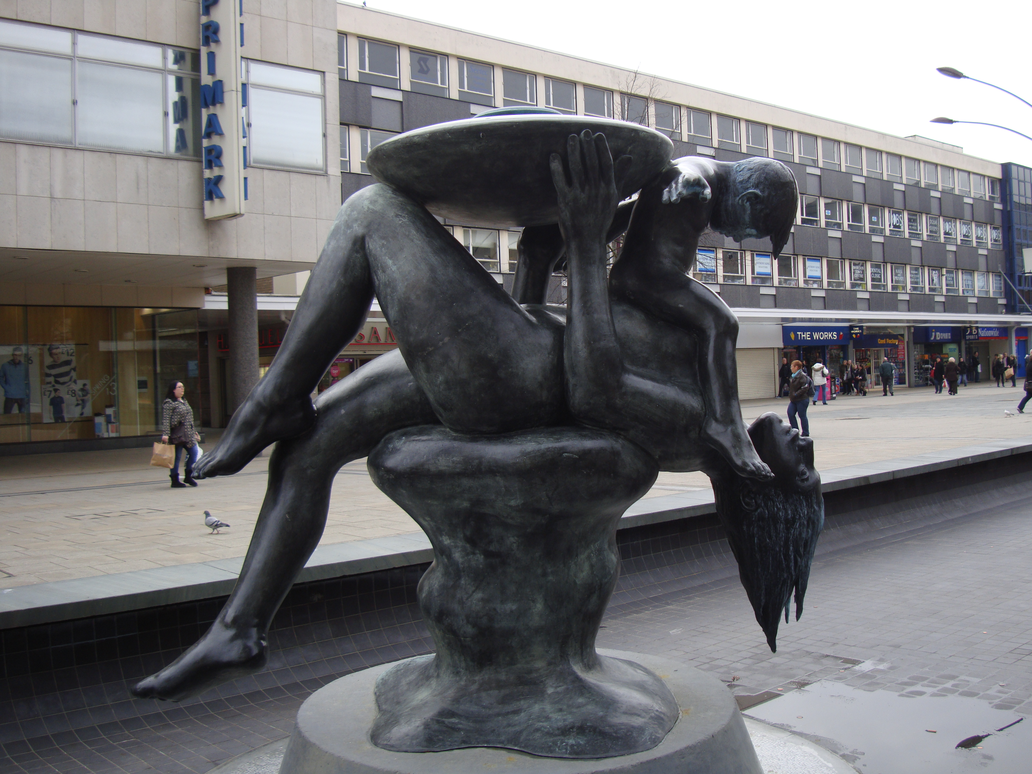 Photograph of the Mother & Child Statue, Basildon town centre, Essex, England